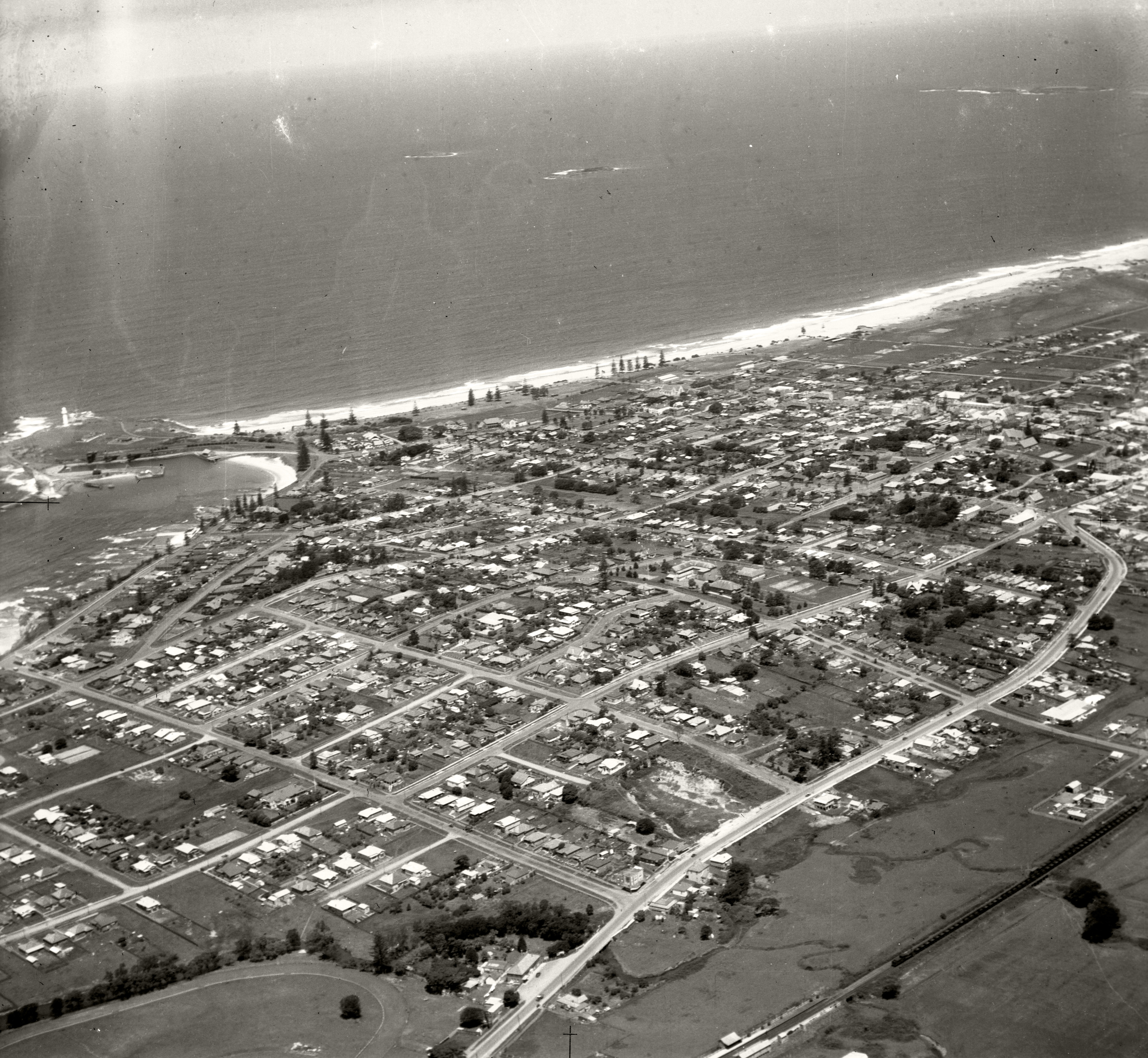 The Royal Australian Historical Society is heading to Wollongong to stage its annual conference on Saturday 22nd and Sunday 23rd October at Centro CBD – 28 Stewart St. Wollongong NSW. The digital revolution is impacting how we research and produce history. There is also an increasing appetite for local and community history that connects people to their identity and place. History plays a critical role in advocacy campaigns to ensure that these places remain part of our cultural landscape in this era of widespread urban development. How historical societies engage with these developments is critical to ensure their continued relevancy in 21st century Australia. The RAHS invites you to join us to explore these topics, learn skills that will support your history projects and enjoy opportunities to network and share histories with RAHS members and friends. Attend an historical tour and our conference dinner on the Saturday evening. Conference details are on our website, which includes the full program and booking form: Go straight to the program and booking form here